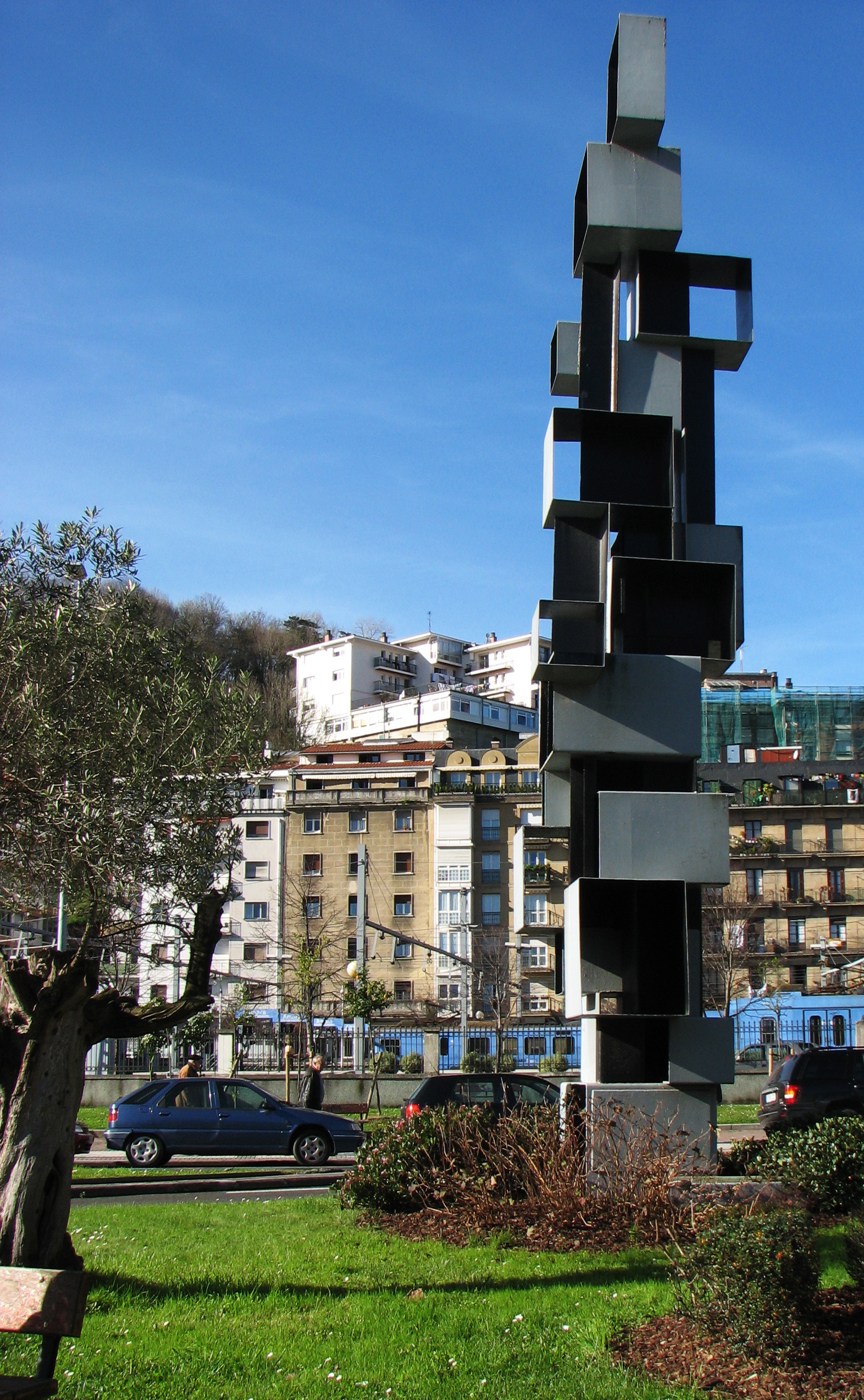 Public art in San Sebastian, Spain